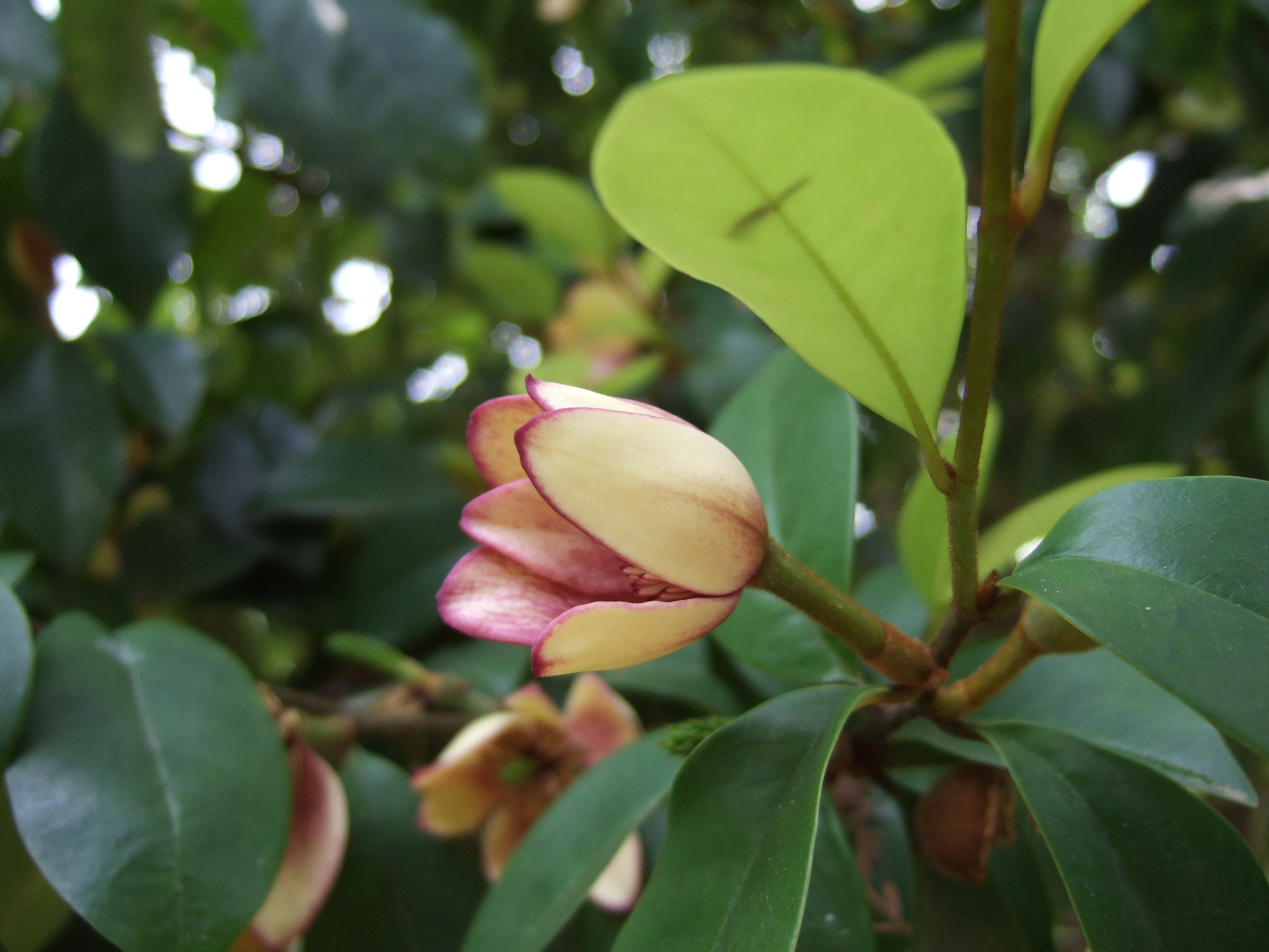 Magnolia figo (syn. Michelia figo), Nagai Botanical Garden, Osaka, Japan